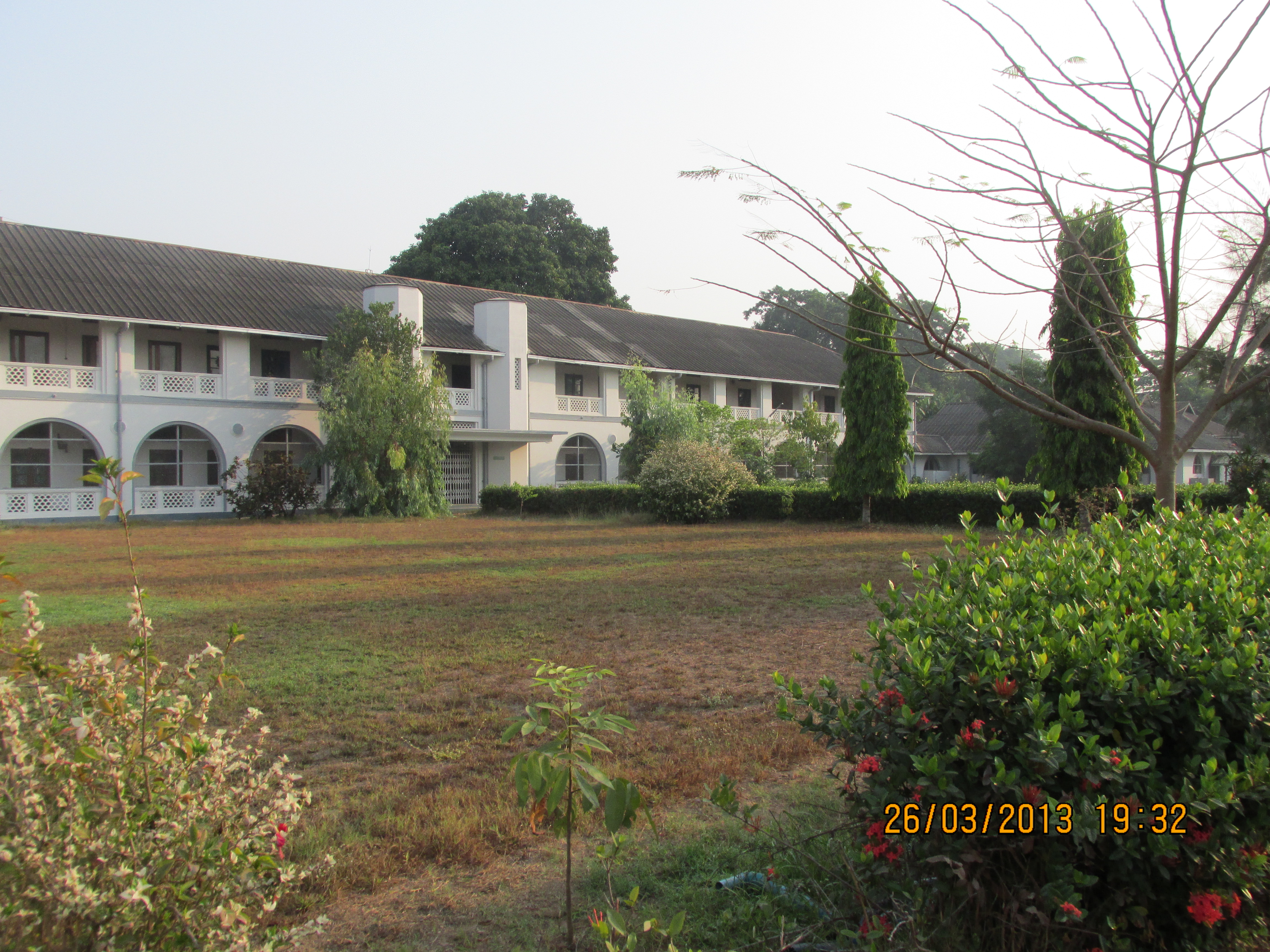 The Yangon University of Education မြန်မာဘာသာ: ရန်ကုန်ပညာ​ရေးတက္ကသိုလ်